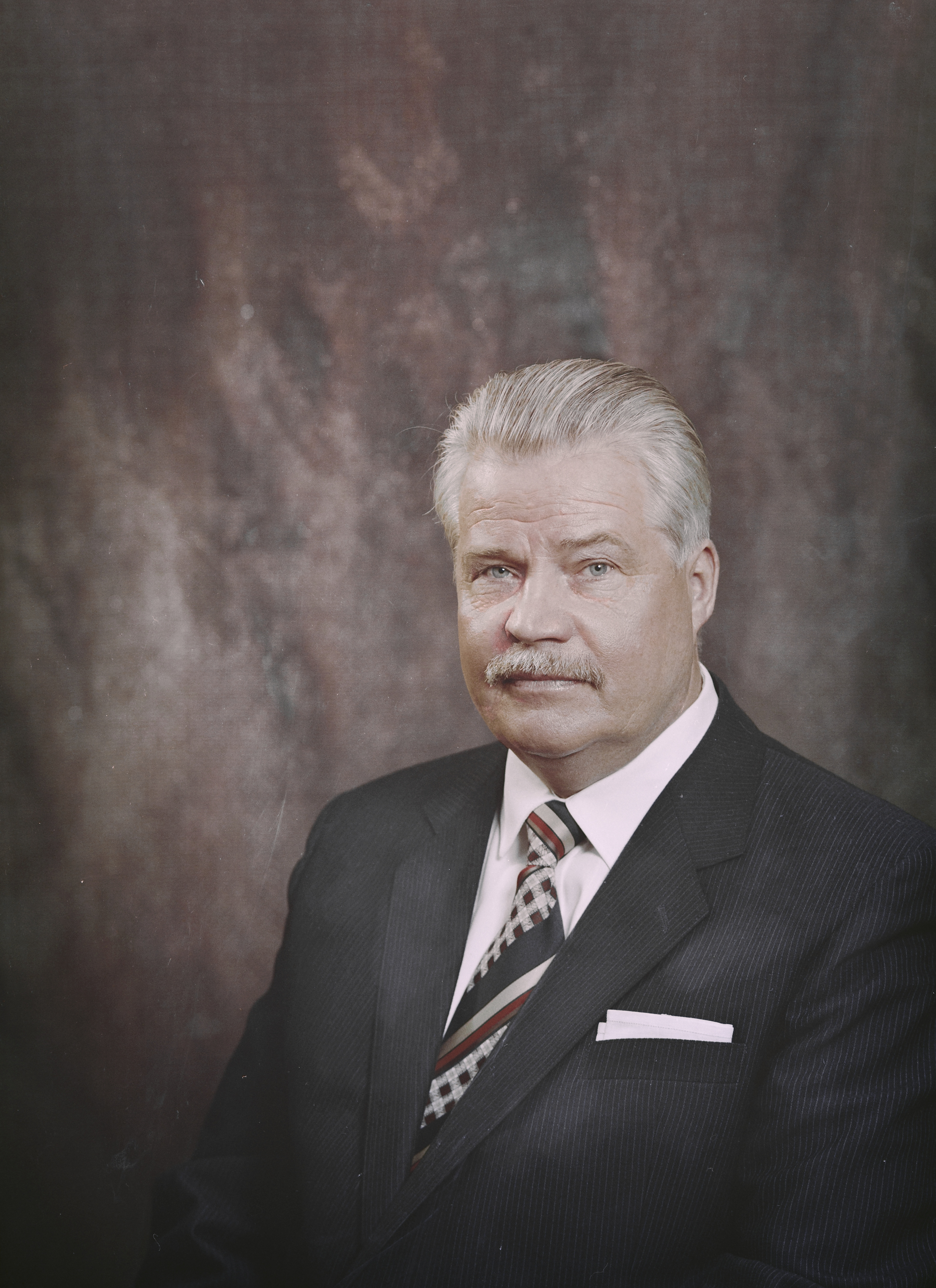 Photograph of the Finnish businessman Paavo V. Suominen (1920–).